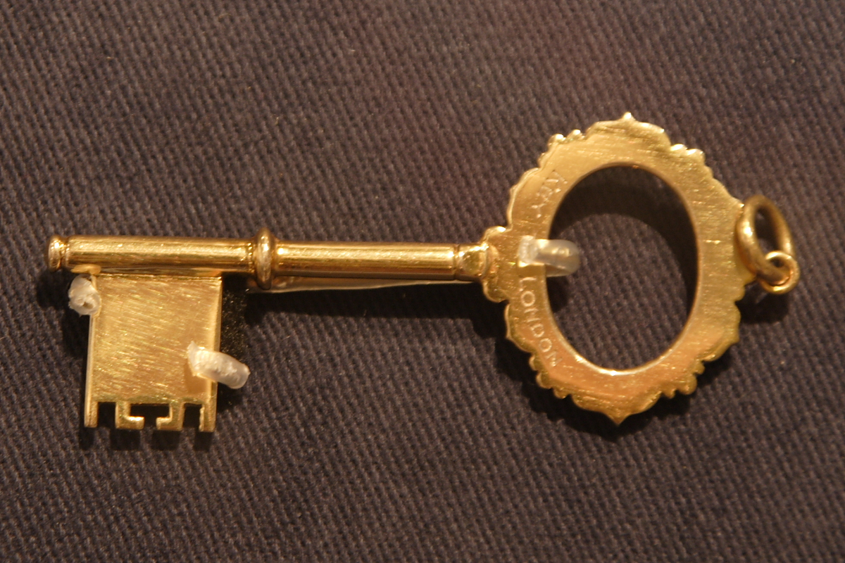 Key to the city of London, England presented to Charles Lindbergh. This medal is on exhibit at the Missouri History Museum, St. Louis, Missouri.